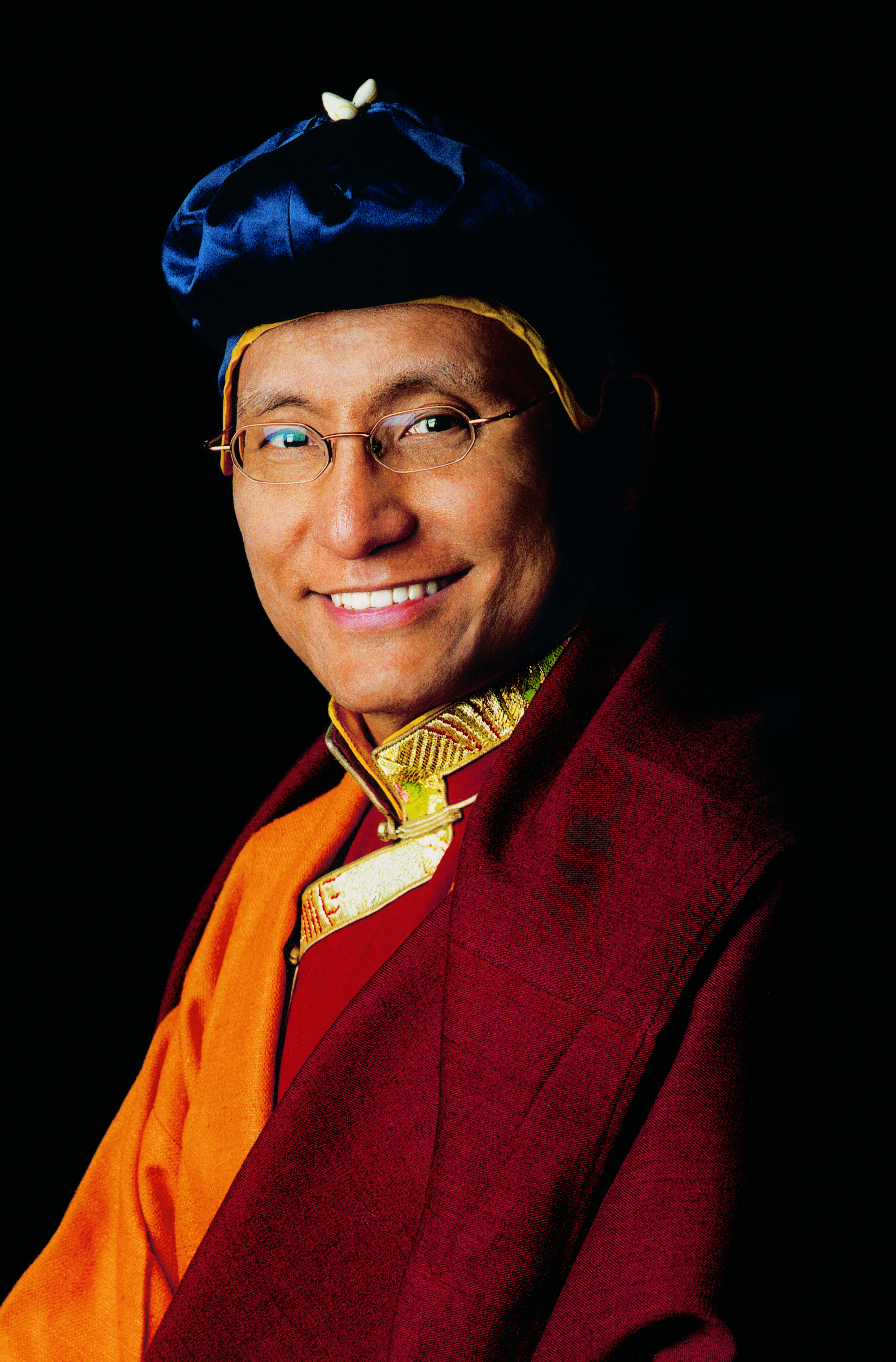 His Holiness the Gyalwang Drukpa